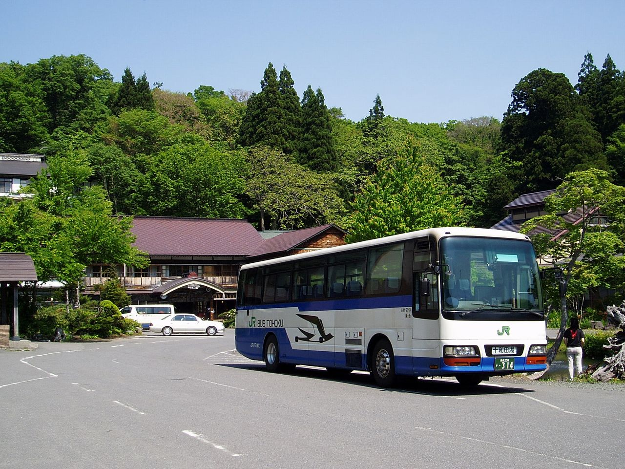 JR Bus Tohoku 641-9913 "Towada-hoku Line" Isuzu KC-LV782R1 at Tsuta-Onsen in Towada City